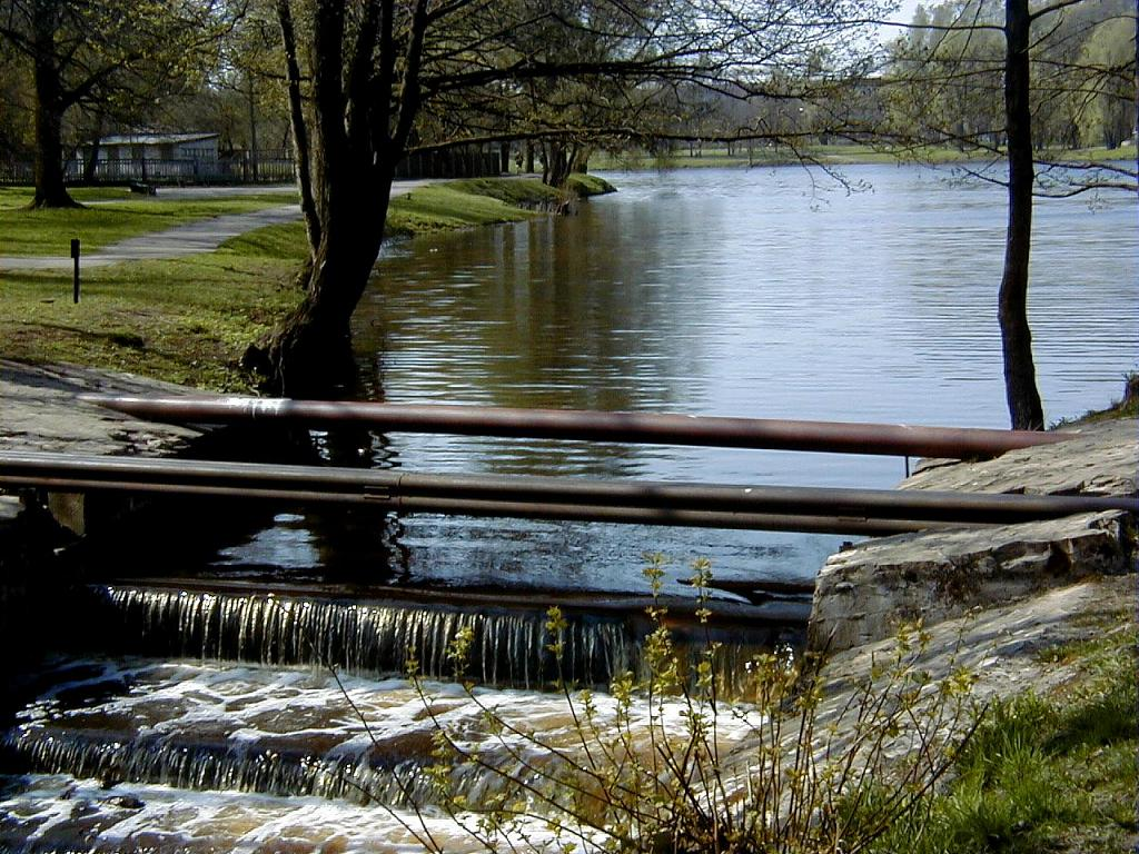 River Mārupītes